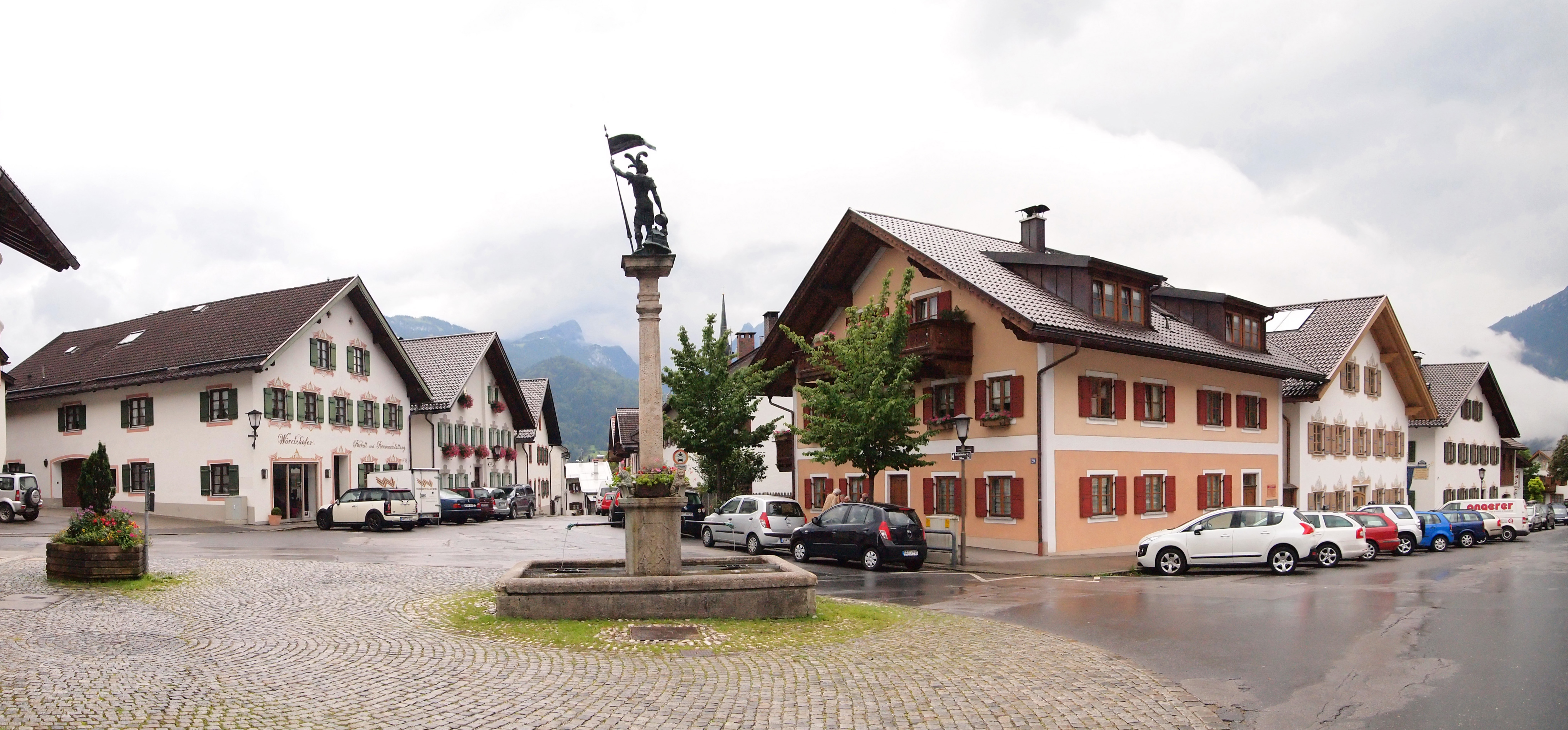 Floriansplatz, Garmisch-Partenkirchen.